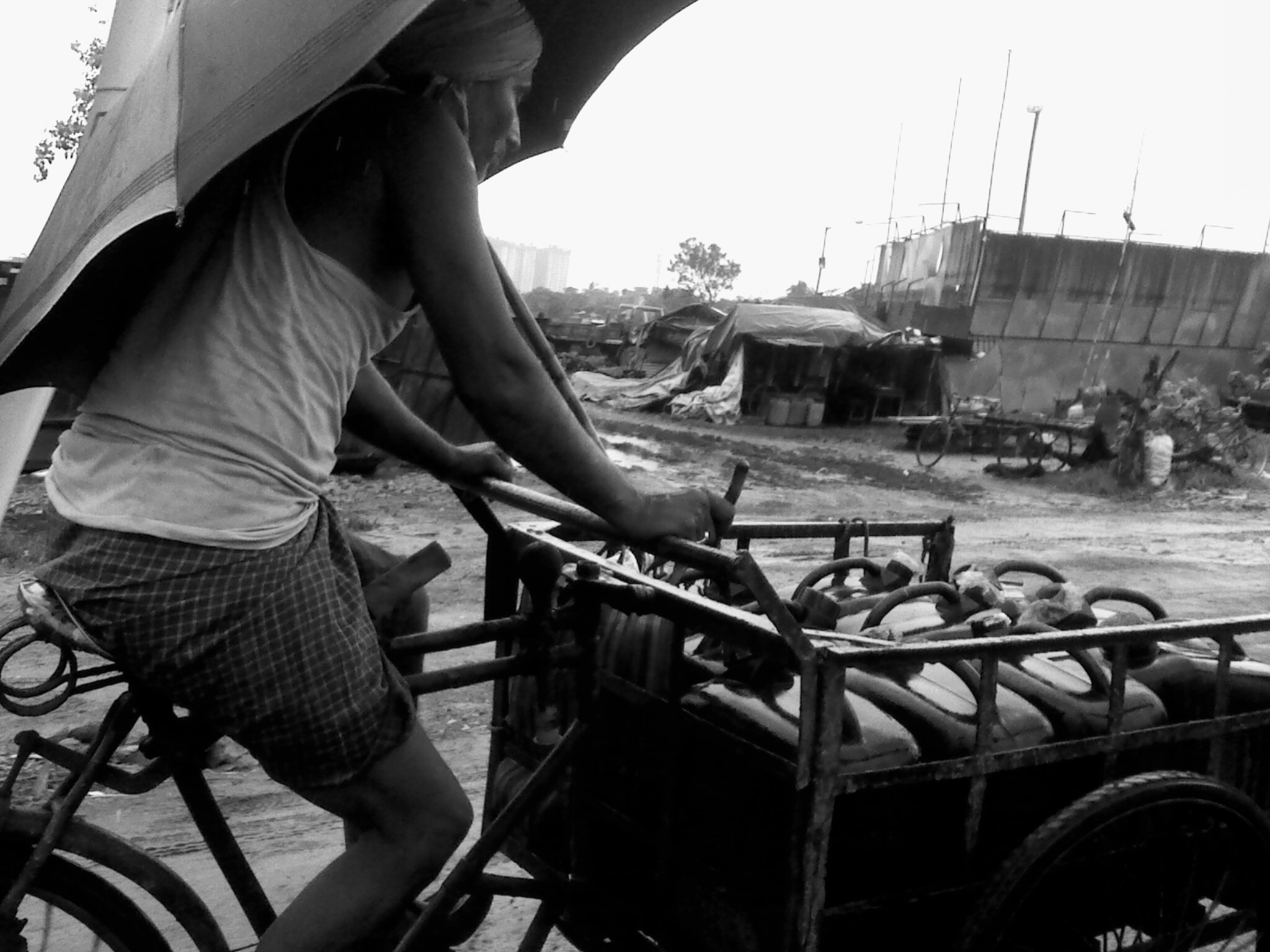 A rainy day at E.M. Byepass, Kolkata